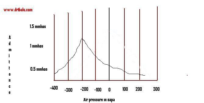 Tympanogram type C